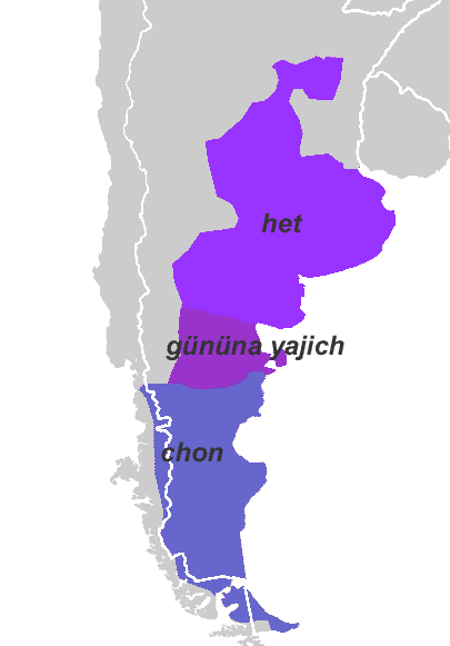 East Southern Cone languages (approximate areas)